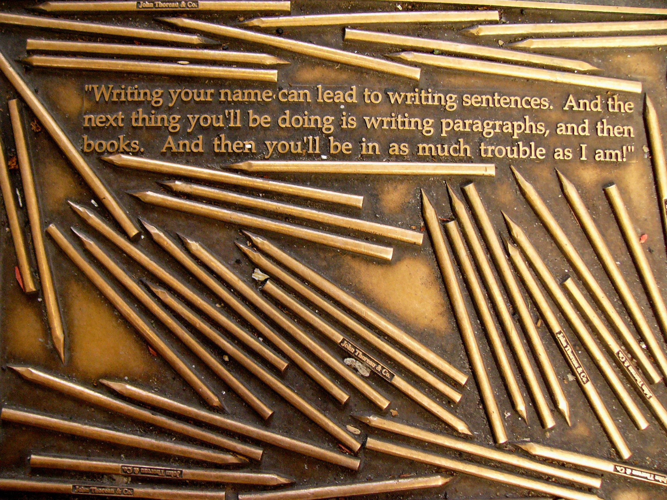 Quote from Henry David Thoreau on Library Way in New York City. Taken on February 28, 2007.